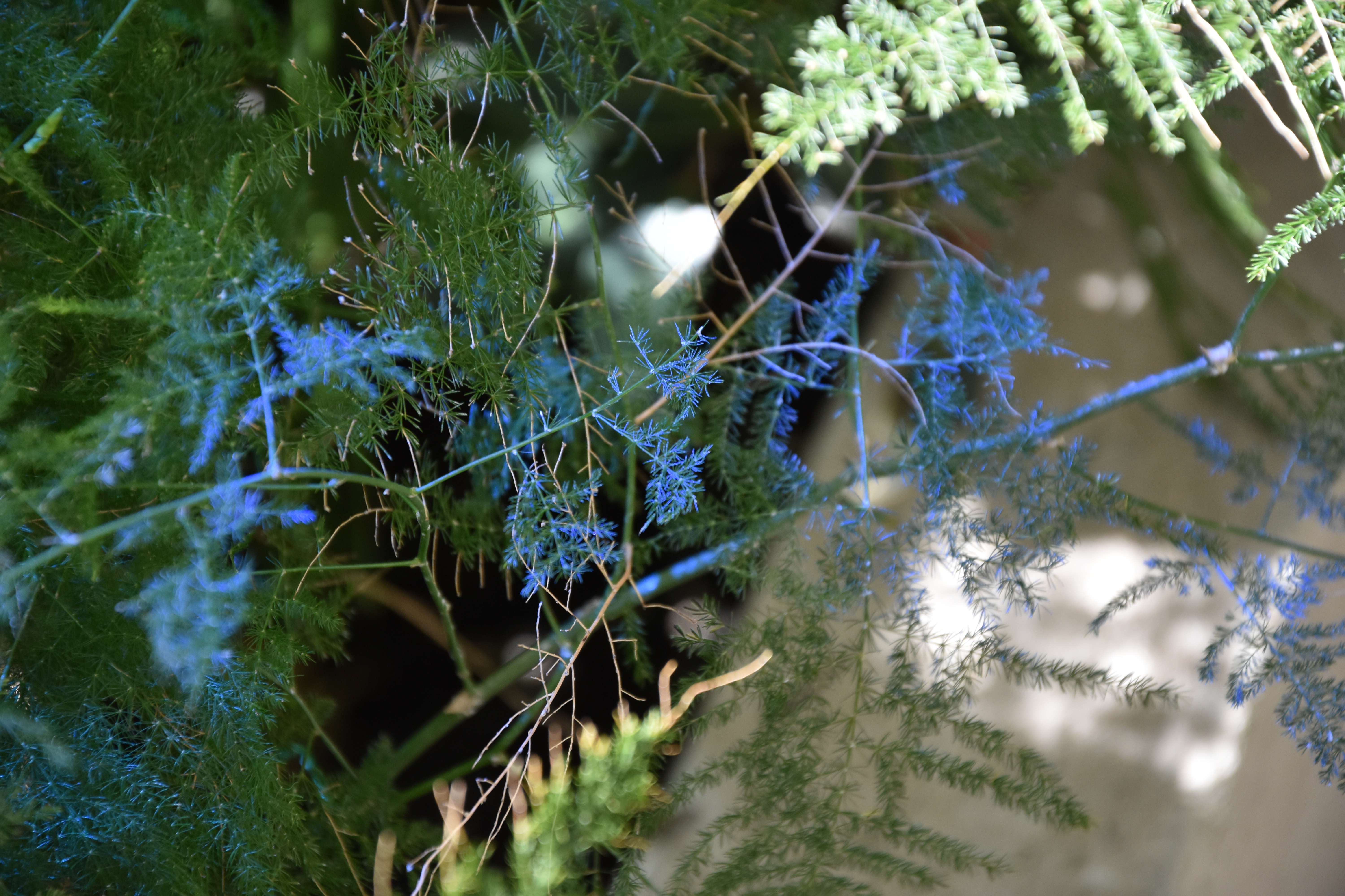 Villa Panza in Varese, Italy.